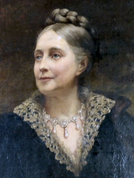 Lady Augusta Mostyn: painting detail